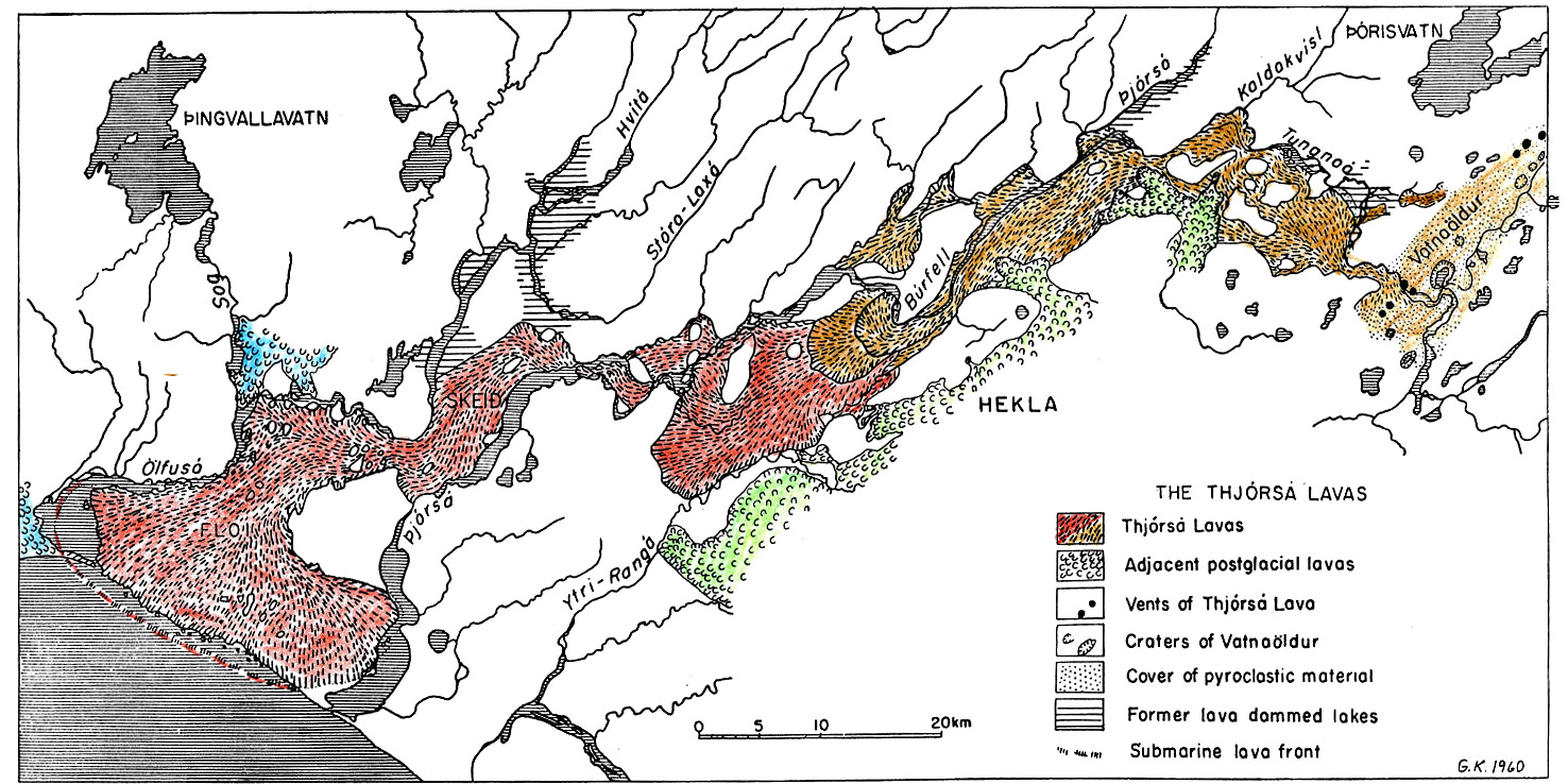 The Great Thjorsa Lava, South Iceland